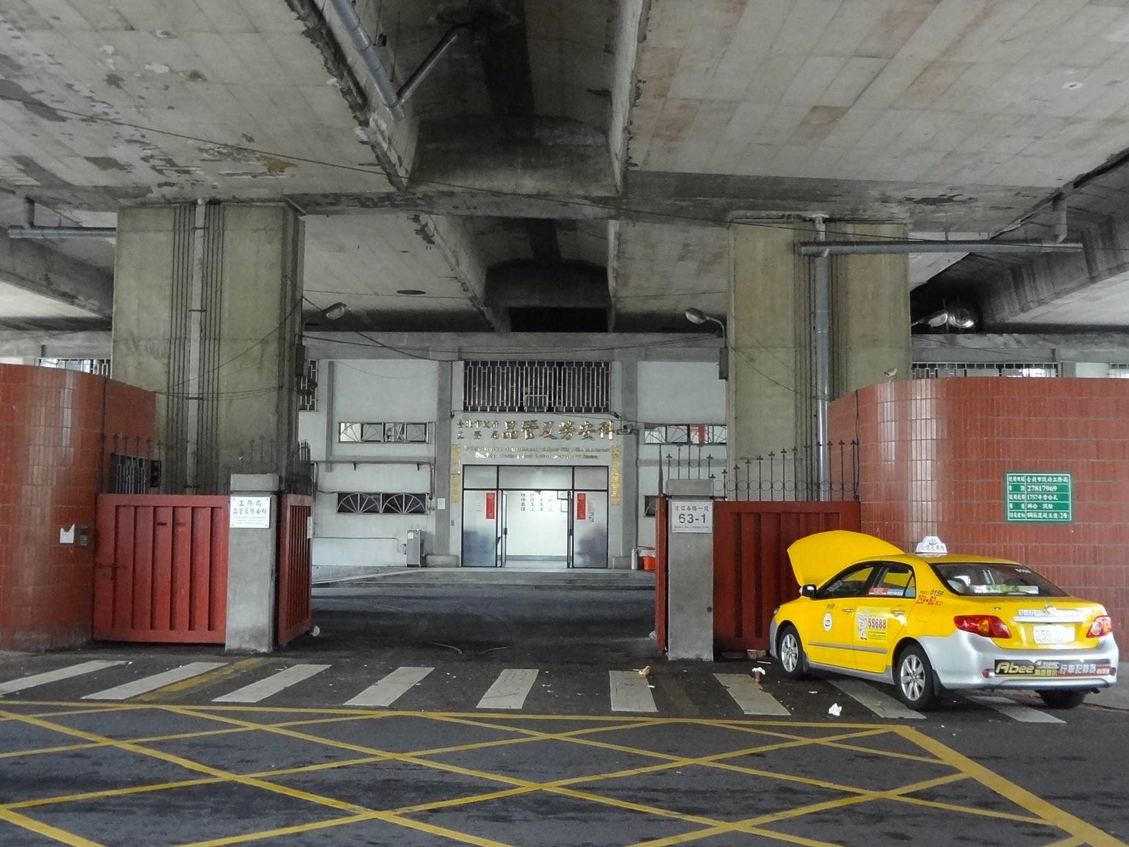 Quality Control and Labor Safety Division, Public Works Department, Taipei City Government.